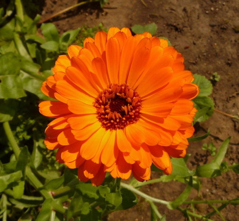 Pot marigold Fragaria, Fryšták